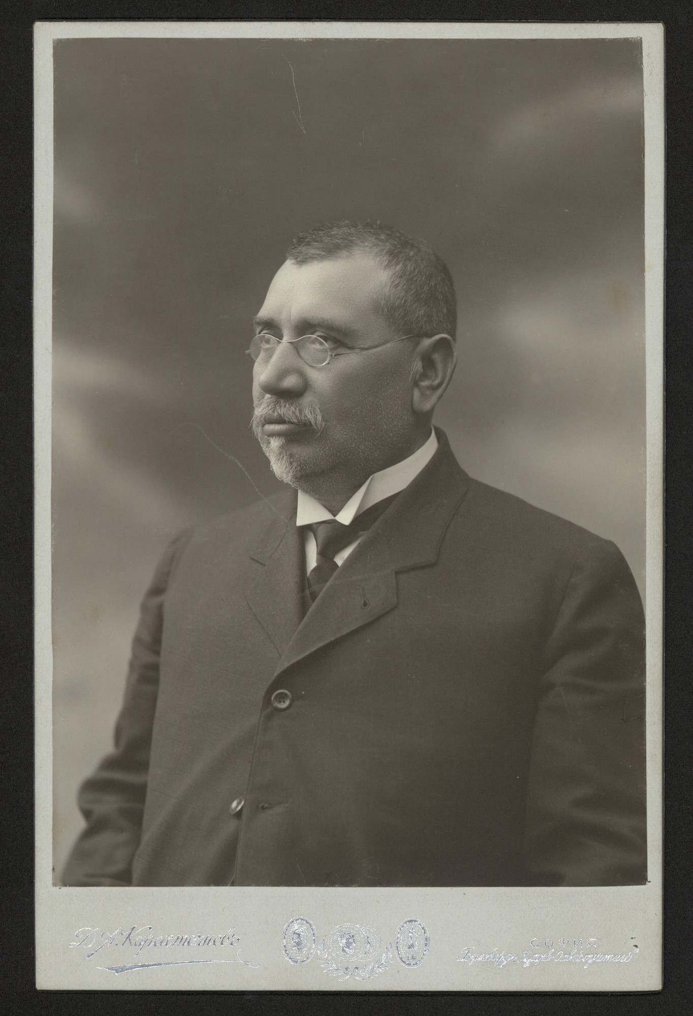 Studio portrait of Dimitar Mishev by Dimitar Karastoyanov 13 April 1909